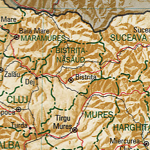 Map of Bistrița-Năsăud County, Romania.